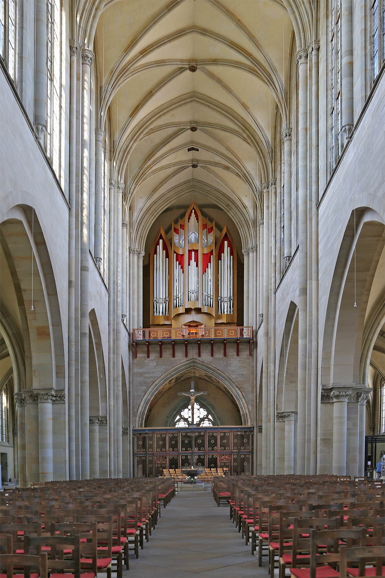 Organ in Magdeburg Cathedral. The cathedral is an evangelical bishop's church and also the landmark of the city.